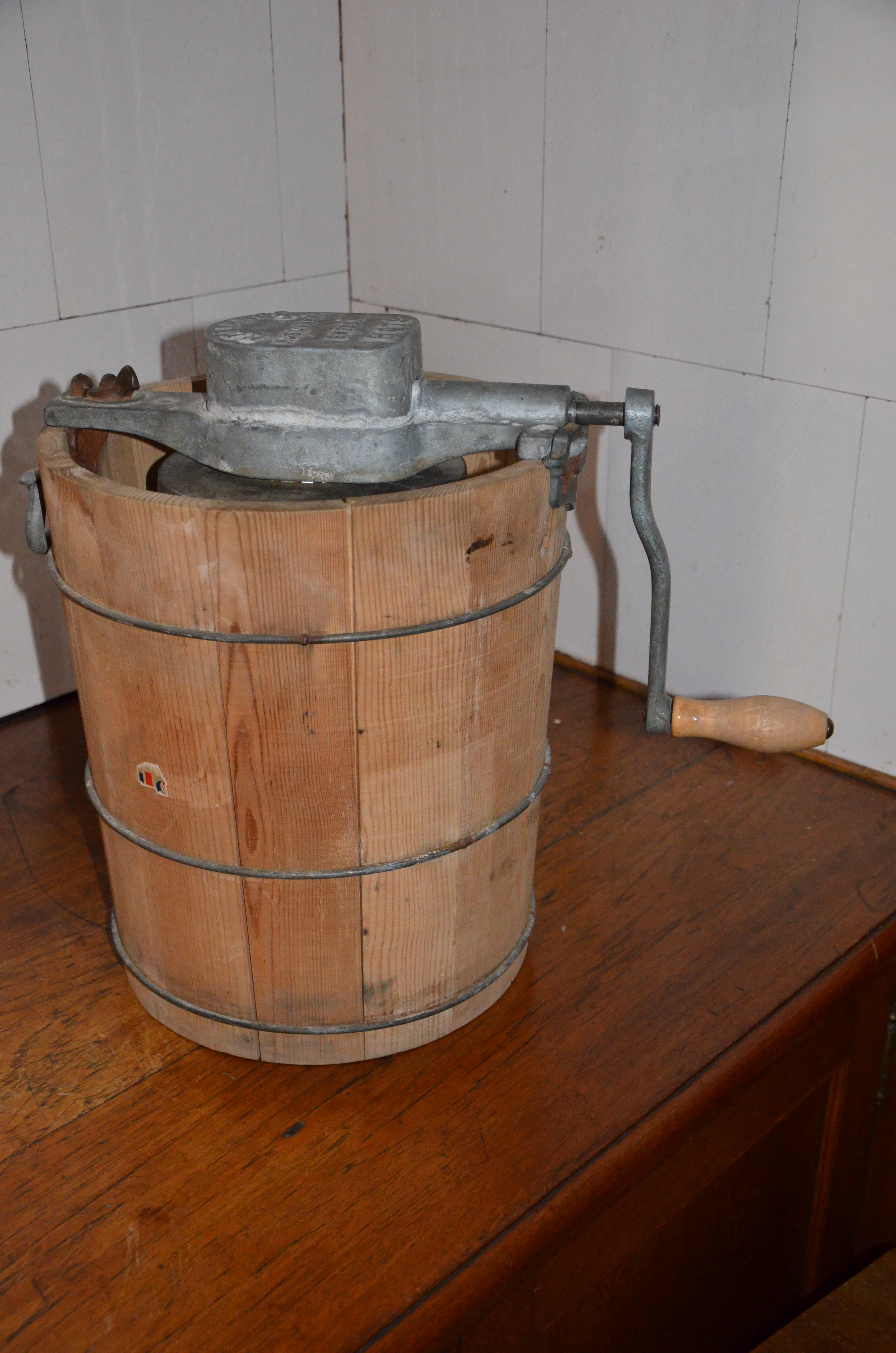 Ice cream maker Reliance from early 20th Century, manufactured by Husqvarna Vapenfabrik in Sweden, volume 6 QTS Photo taken in the kitchen of Hallwylska museet in Stockholm